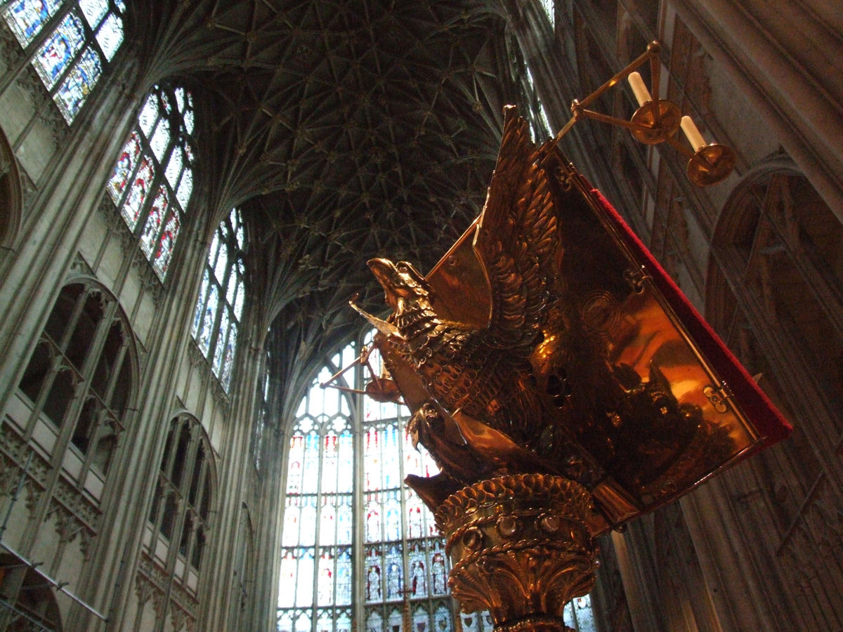 Gloucester cathedral, Gloucester, England - Lectern